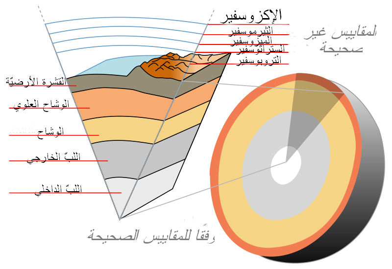 Earth and atmosphere cutaway illustration in arabic